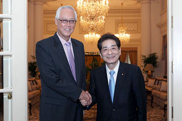 Yoshito Sengoku, Member of the House of Representatives, met Goh Chok Tong, former Senior Minister, in Singapore on May, 2012.